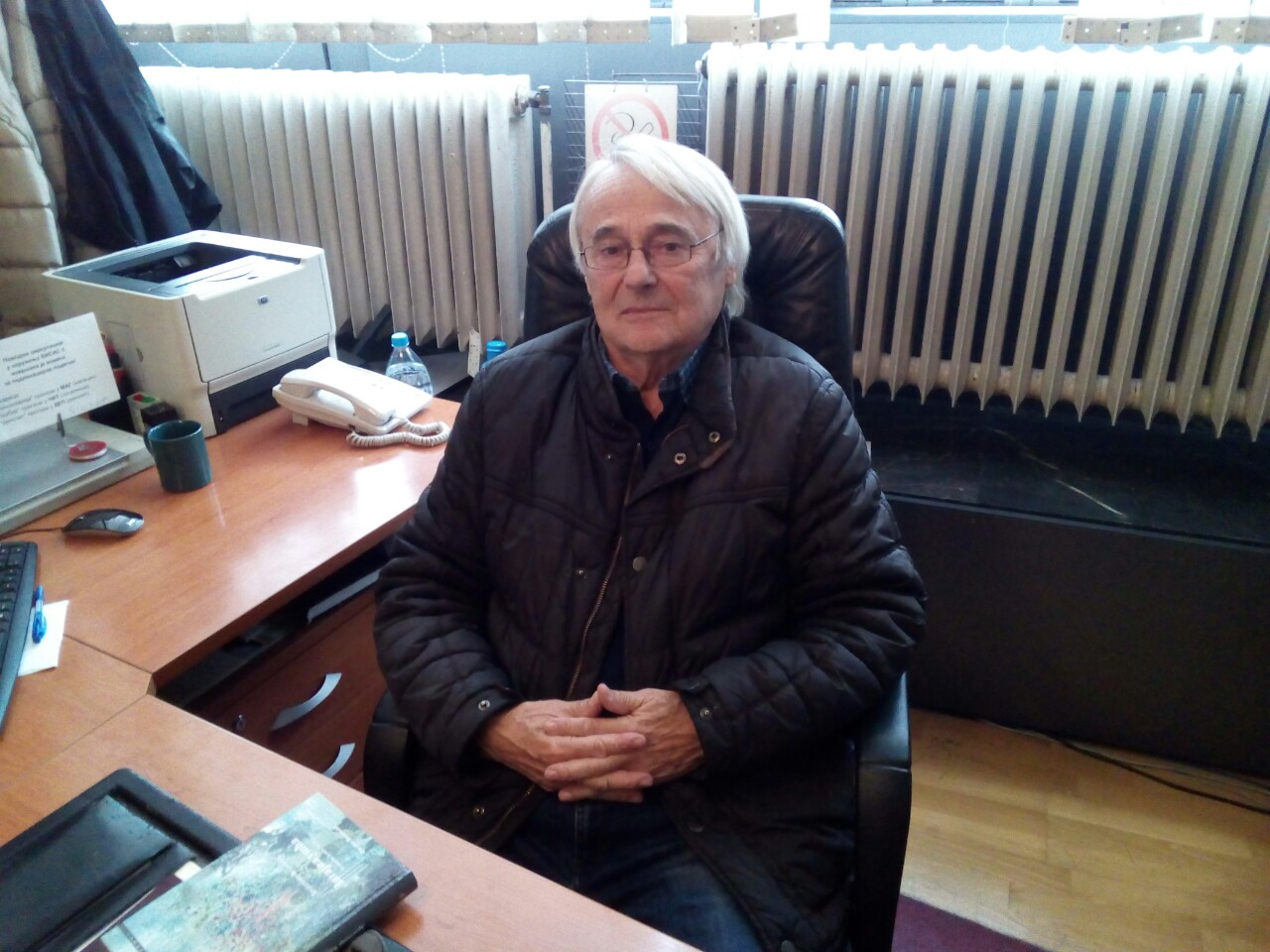 Dragomir Dale Ćulafić (04.12.2018.) in public library "Laza Kostić", Serbia, Belgrade, Čukarica Srpski (latinica): Dragomir Dale Ćulafić (04.12.2018) u biblioteci "Laza Kostić", Čukarica